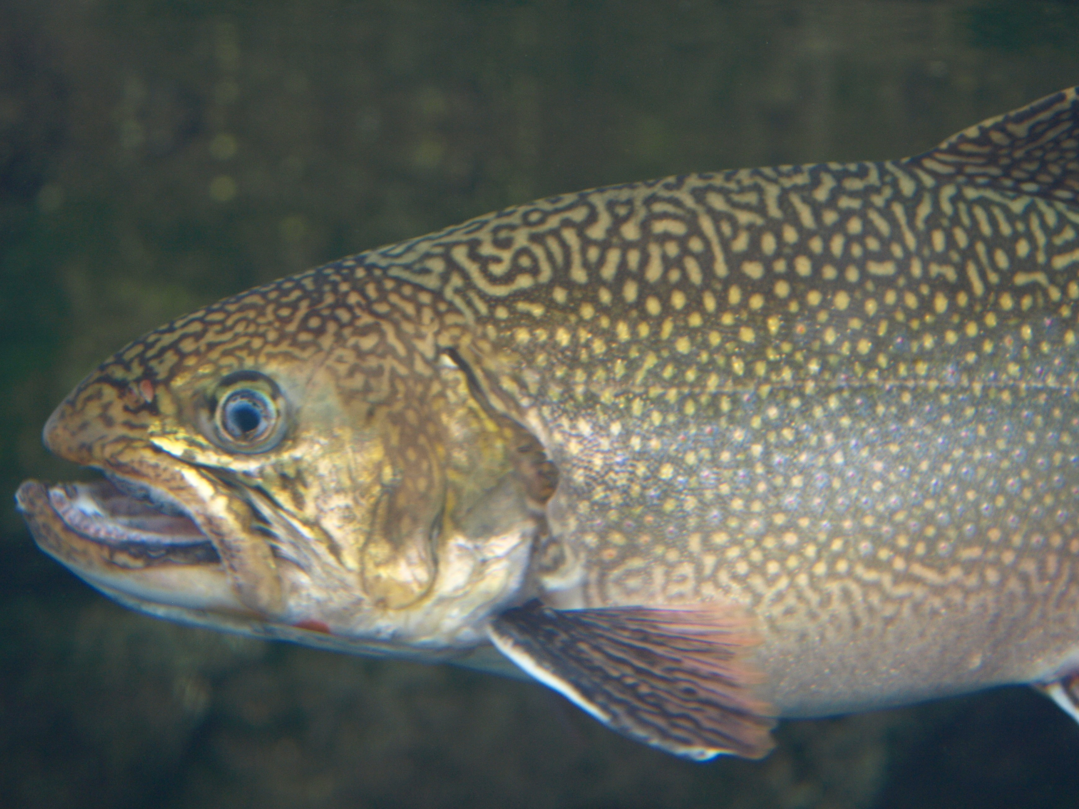 Brook Trout National Aquarium, Baltimore April 5, 2011